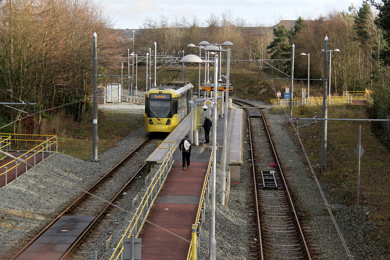 Oldham Mumps tram stop from the footbridge. 10 days to go. The section of the Metrolink line on the old railway trackbed past the town centre was due to close from 17 January 2014, being replaced by a new routeing through the streets of central Oldham. My visit coincided with test running of trams over the new section as well as over the old railway alignment..